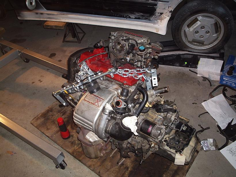 A 2nd Generation 3SGTE from a 1993 Toyota MR2 (SW20)